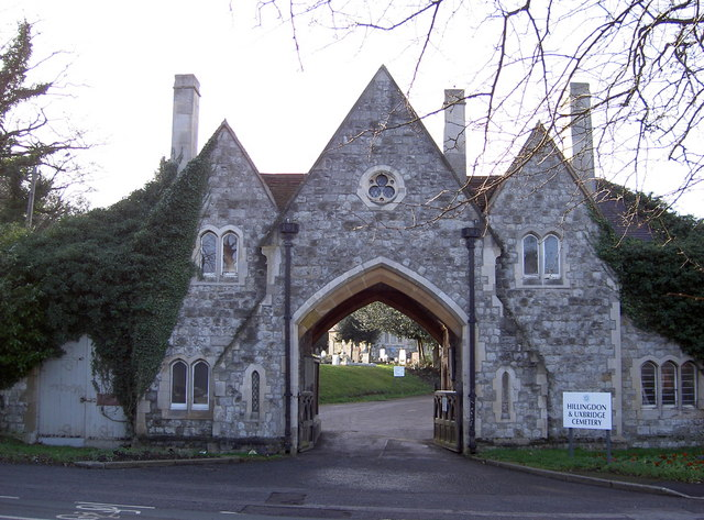 Gatehouse entrance into cemetery Entrance into Hillingdon & Uxbridge Cemetery, Hillingdon Hill [A4020]. Also have a photograph listed viewing other side.